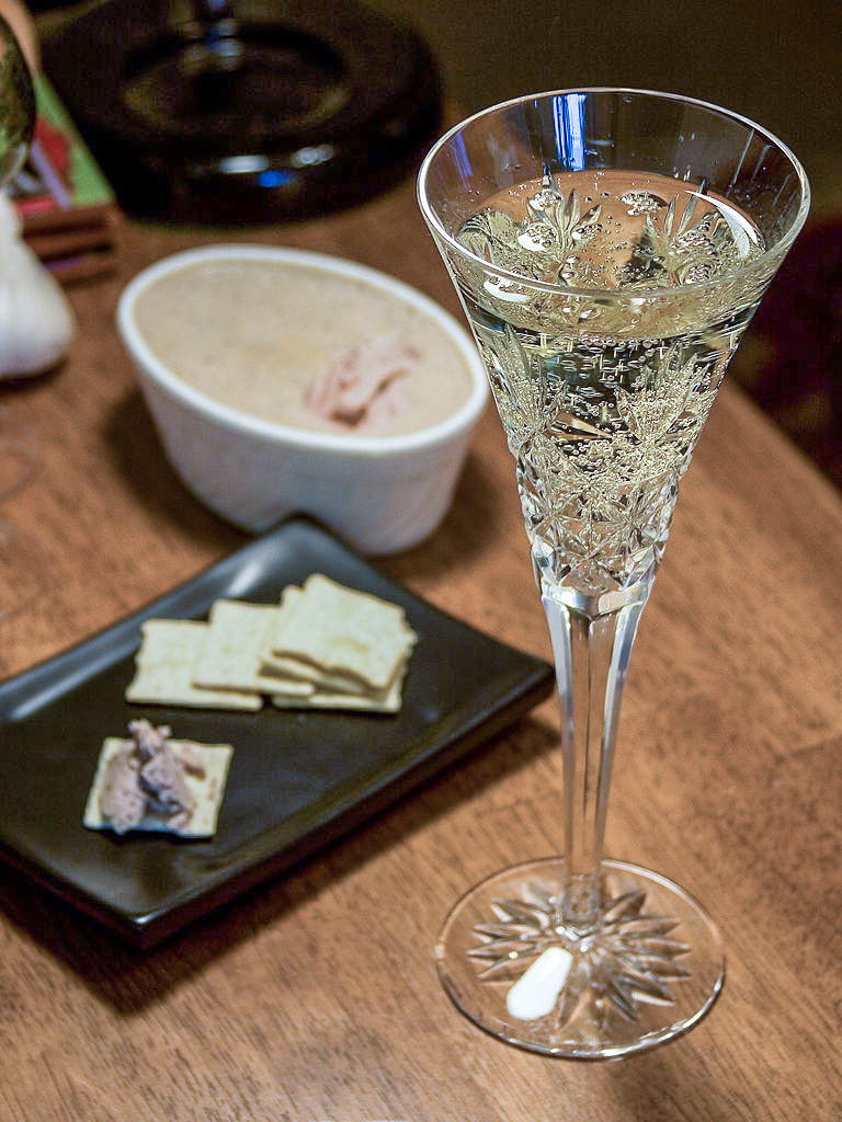 Champagne and pate on Thanksgiving.